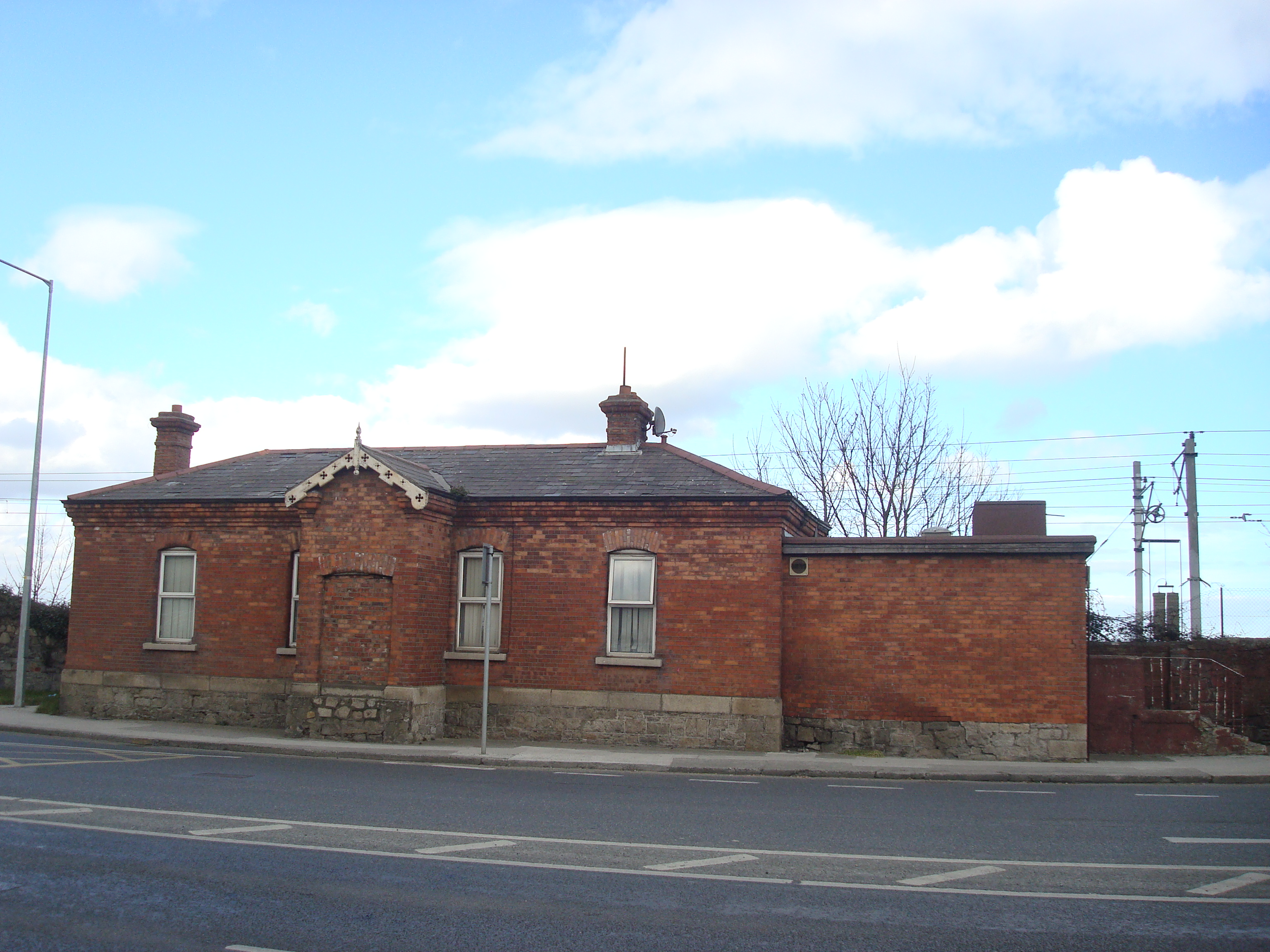 The old Station house at Merrion Gates, Dublin, Ireland.